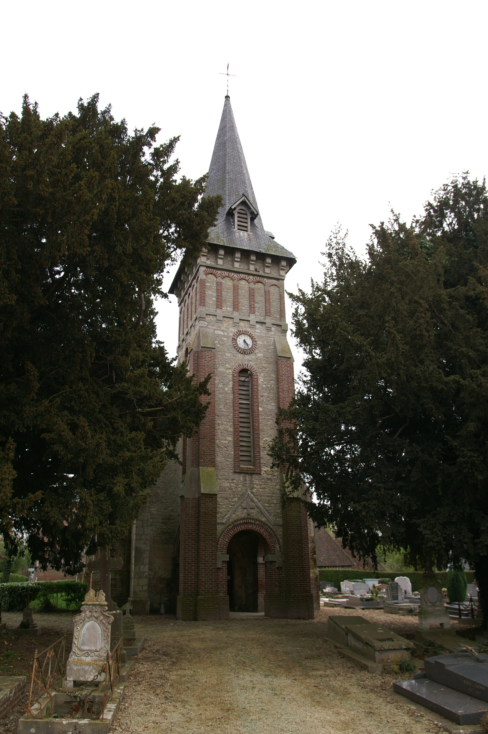 Church of Canapville.